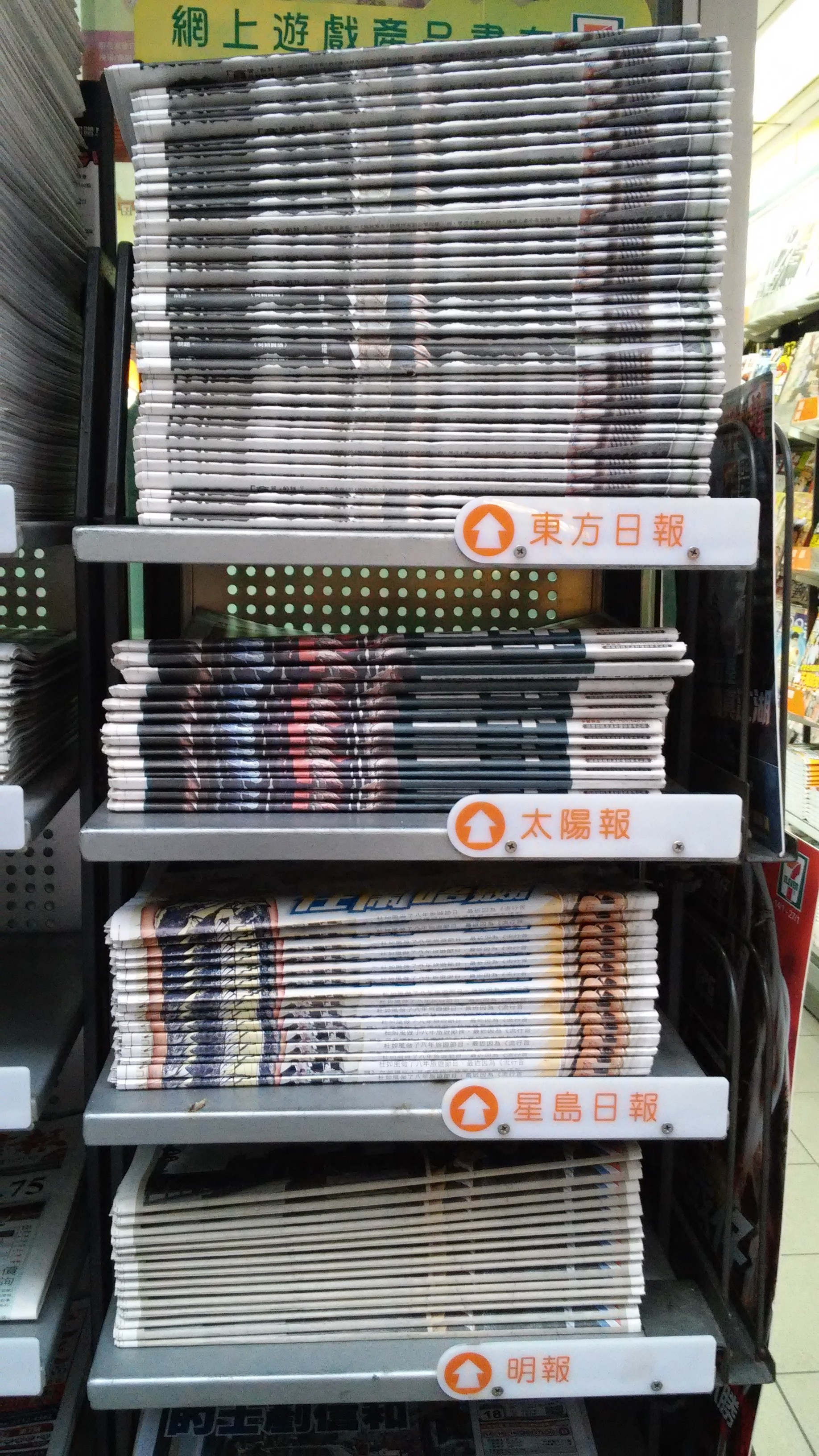 Centre Street, Sai Ying Pun, Hong Kong